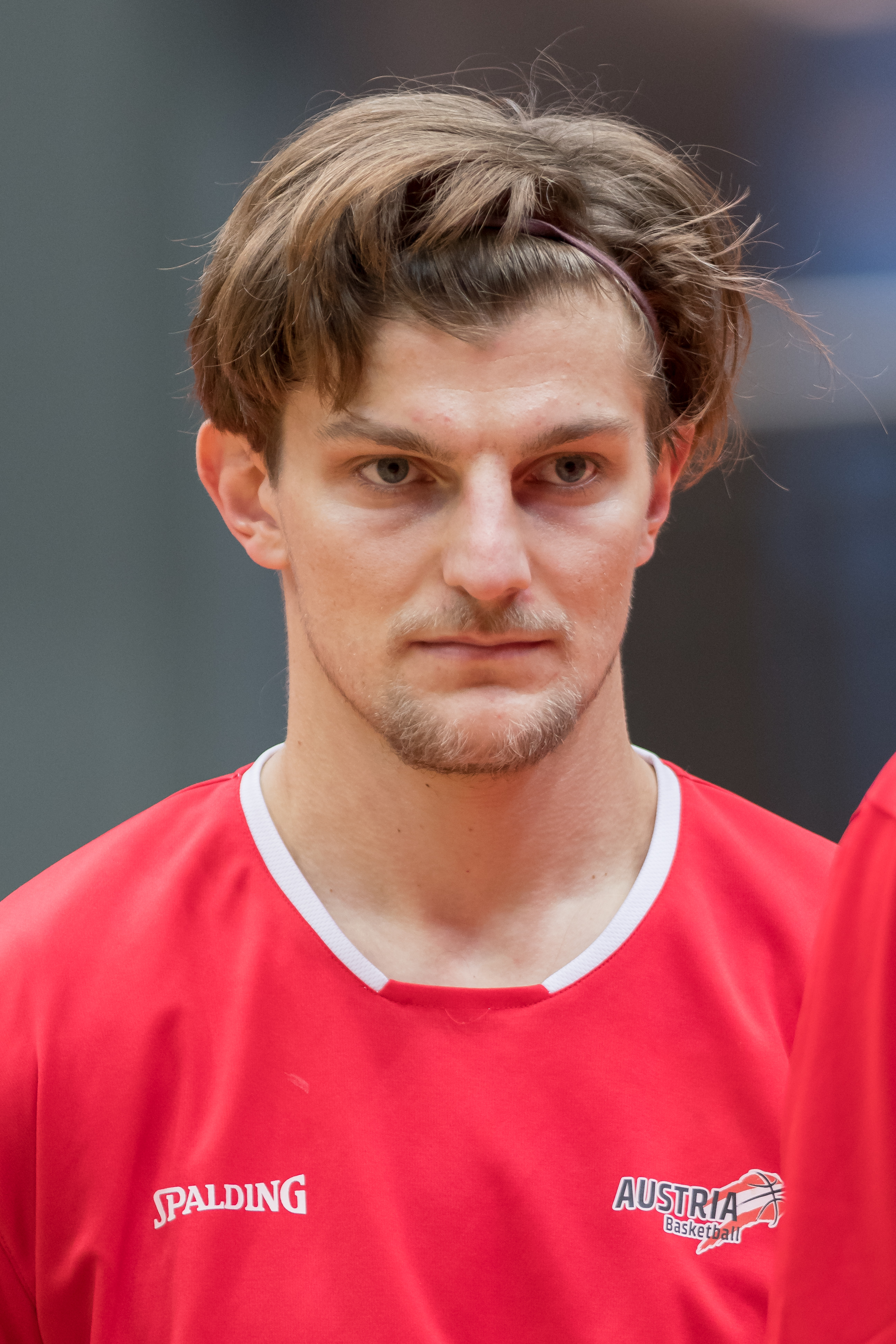 FIBA World Championship Qualification 2019 Austria vs. Germany 2017-11-27 Multiversum Schwechat. Picture shows Moritz Lanegger (AUT)